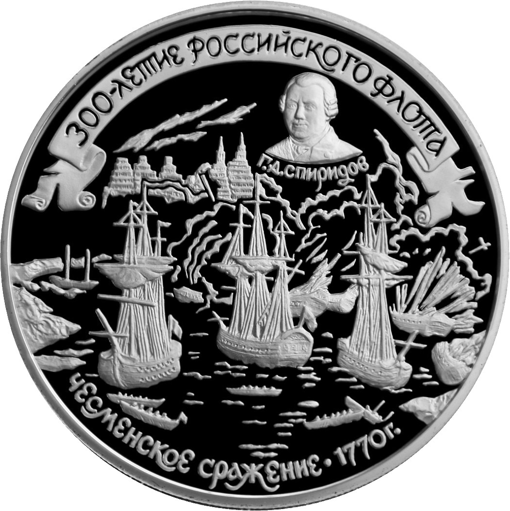 Russian silver coin about Chesma battle